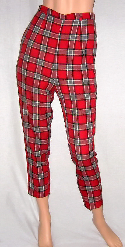 capri pants 1960.